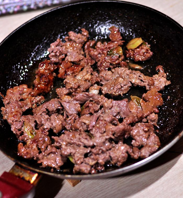 Korean traditional cuisine, Bulgogi